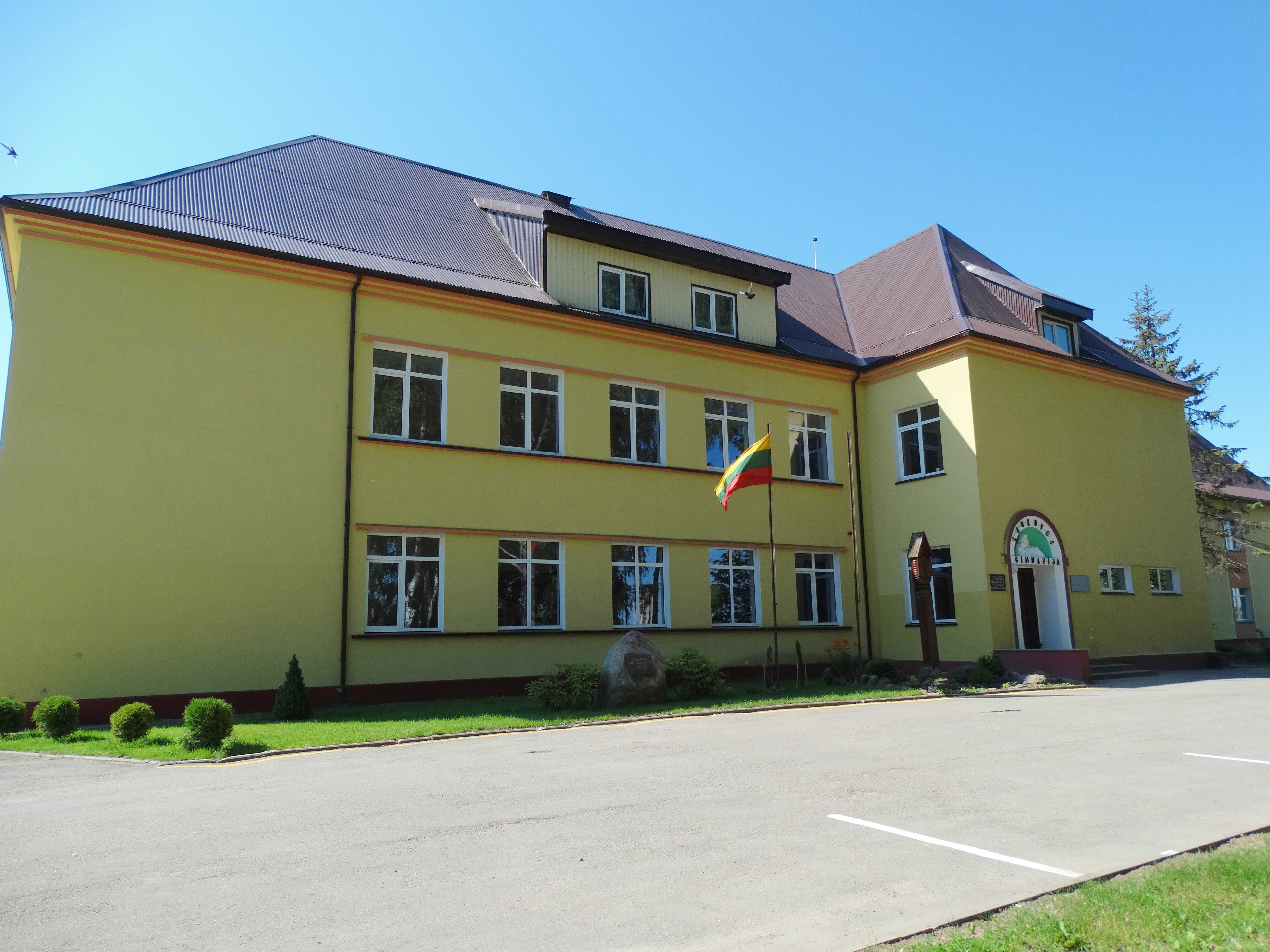 Gymnasium, Laukuva, Šilalė District, Lithuania